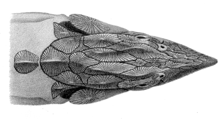 Acipenser oxyrinchus